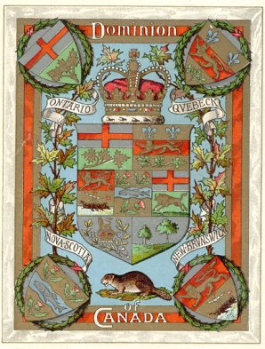 A German postcard showing the arms of Canada. At the four corners of the postcard are what were then the current coats of arms for Ontario (top left), Québec (top right), New Brunswick (bottom right) and Nova Scotia (bottom left). In the centre shield, these four arms are repeated, and then followed by a modified device for Manitoba (the current Manitoba device had a standing bison, the artist has shown a running one), an anachronistic device for British Columbia (this device had not been used since 1896), and a modified device for Prince Edward Island (the official one also depicts a chief).